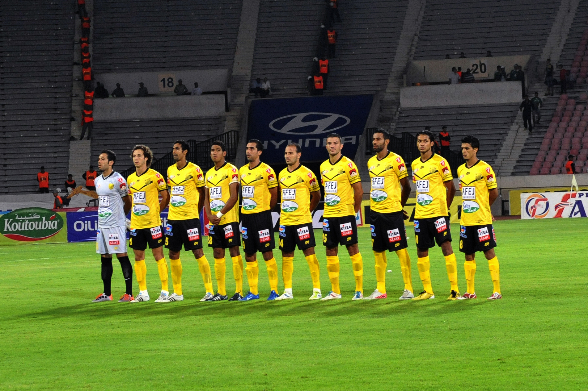 Maghreb Fes, September 2011